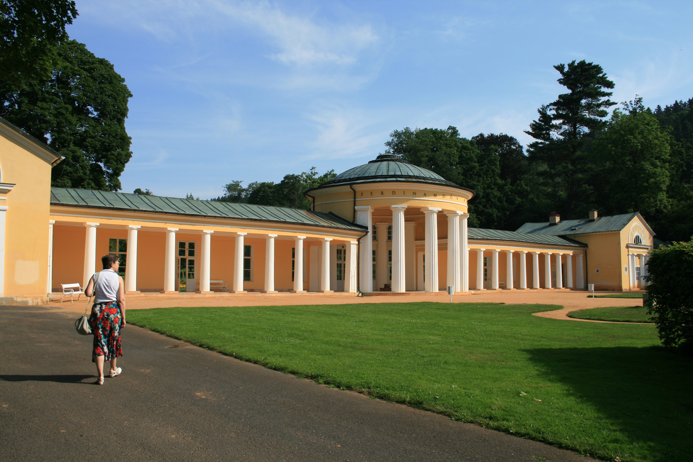 Ferdinand Colonnade in Mariánské Lázně, west Bohemia Czech Republic